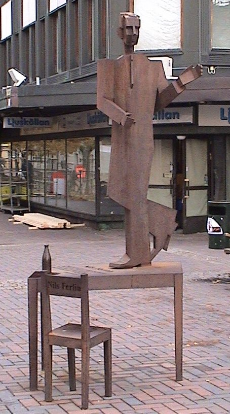 Statue of Nils Ferlin in Karlstad.